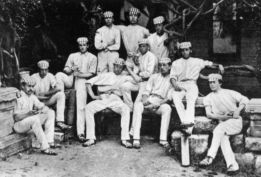 The Harrow XI during the match against Eton in 1869. Back row, (left to right): George Macan, AJ Begbie, W Law; Front row: Charles Walker, Frederick Alexander Currie, WP Crake, Spencer Gore, William Openshaw, Edward Peter Baily, AA Apcar and CT Giles